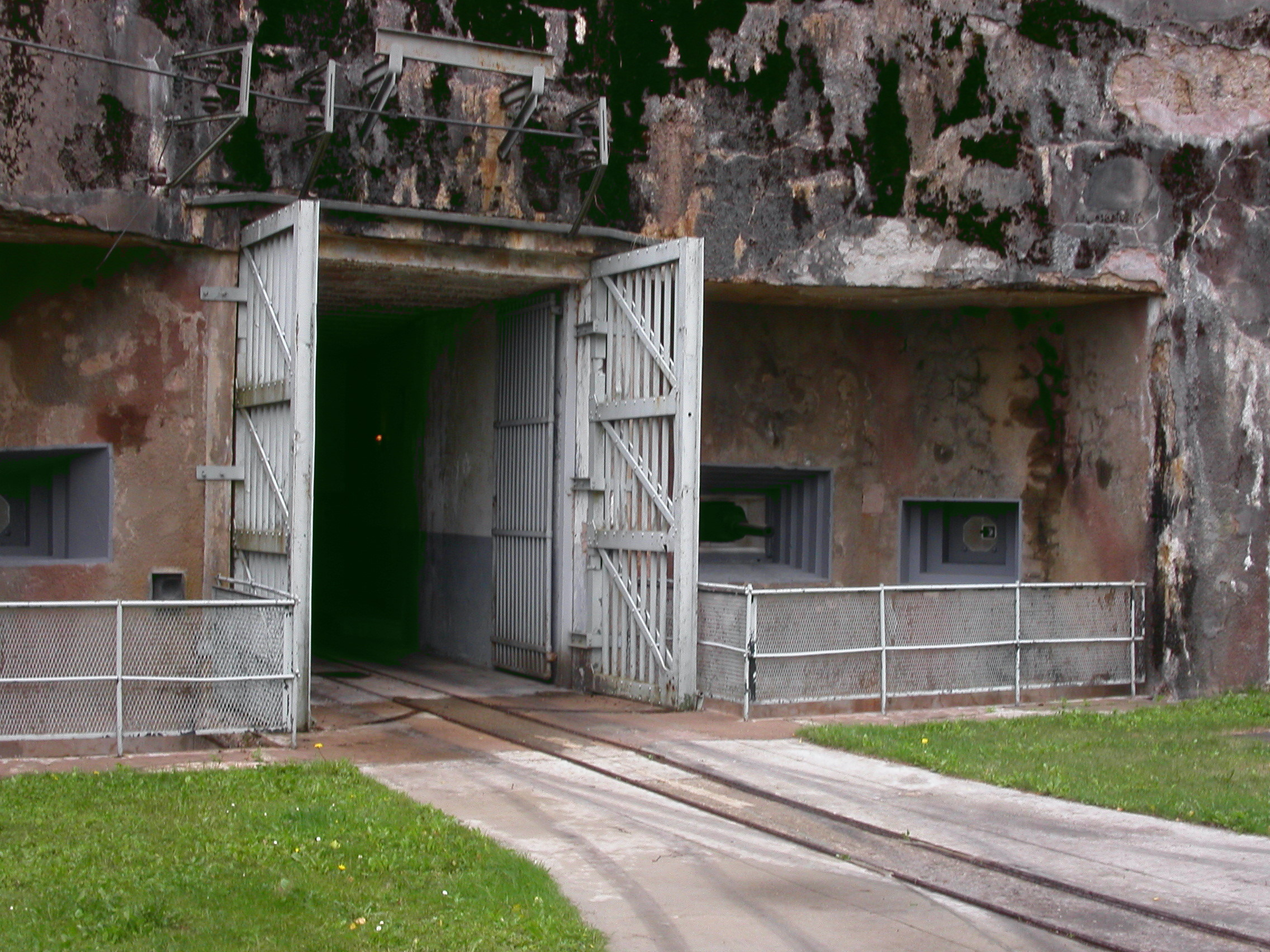 Ouvrage Simserhof, France, Maginot Line, entry to the gros ouvrage